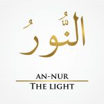 The name of Allah An-Nour